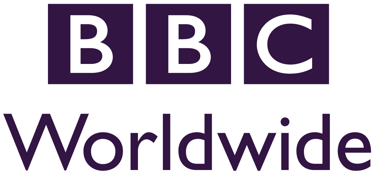 BBC Worldwide public logo